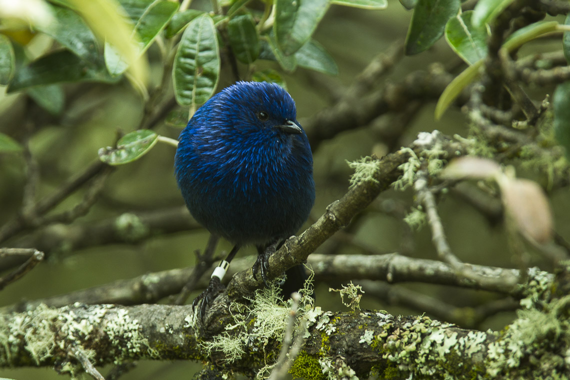 Tit-like Dacnis - South Ecuador_S4E3133